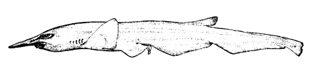 Pentanchus profundicolus, illustration accompanying species description